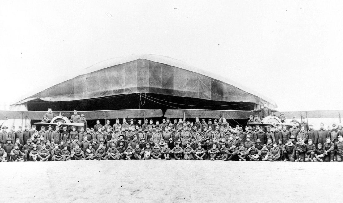 12th Aero Squadron, Julvecourt Airdrome, France, November 1918